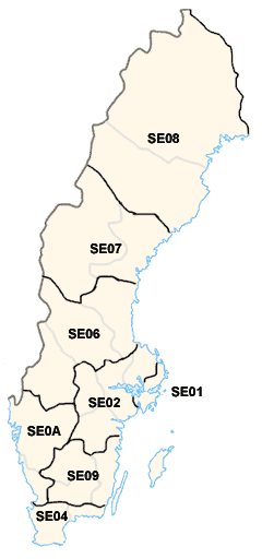 Sweden with NUTS 2 subdivision